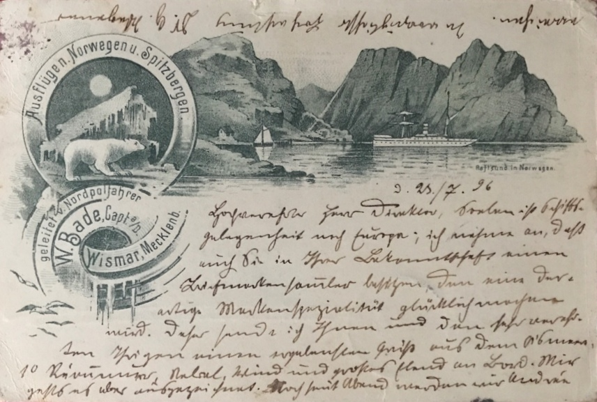 Picture postcard, Spitzbergen trip of Capt. Bade (1896) with SS Erling Jarl, design: Bremer (Wismar) stamped Hammerfest 4.VIII.96; Sender: Dr. Georg Wegener